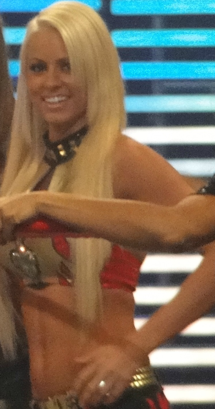 Maryse during a match at the 2010 Royal Rumble event.